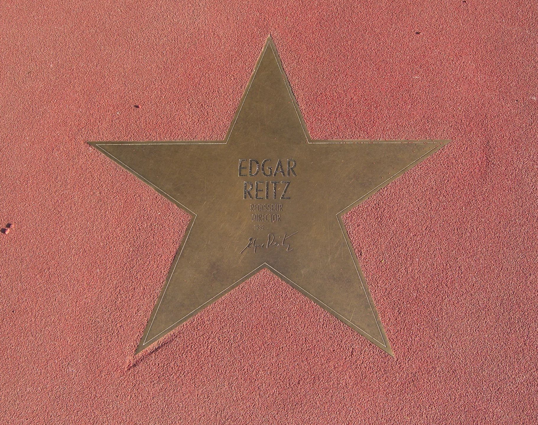 Star of Edgar Reitz at "Boulevard der Stars" in Berlin.